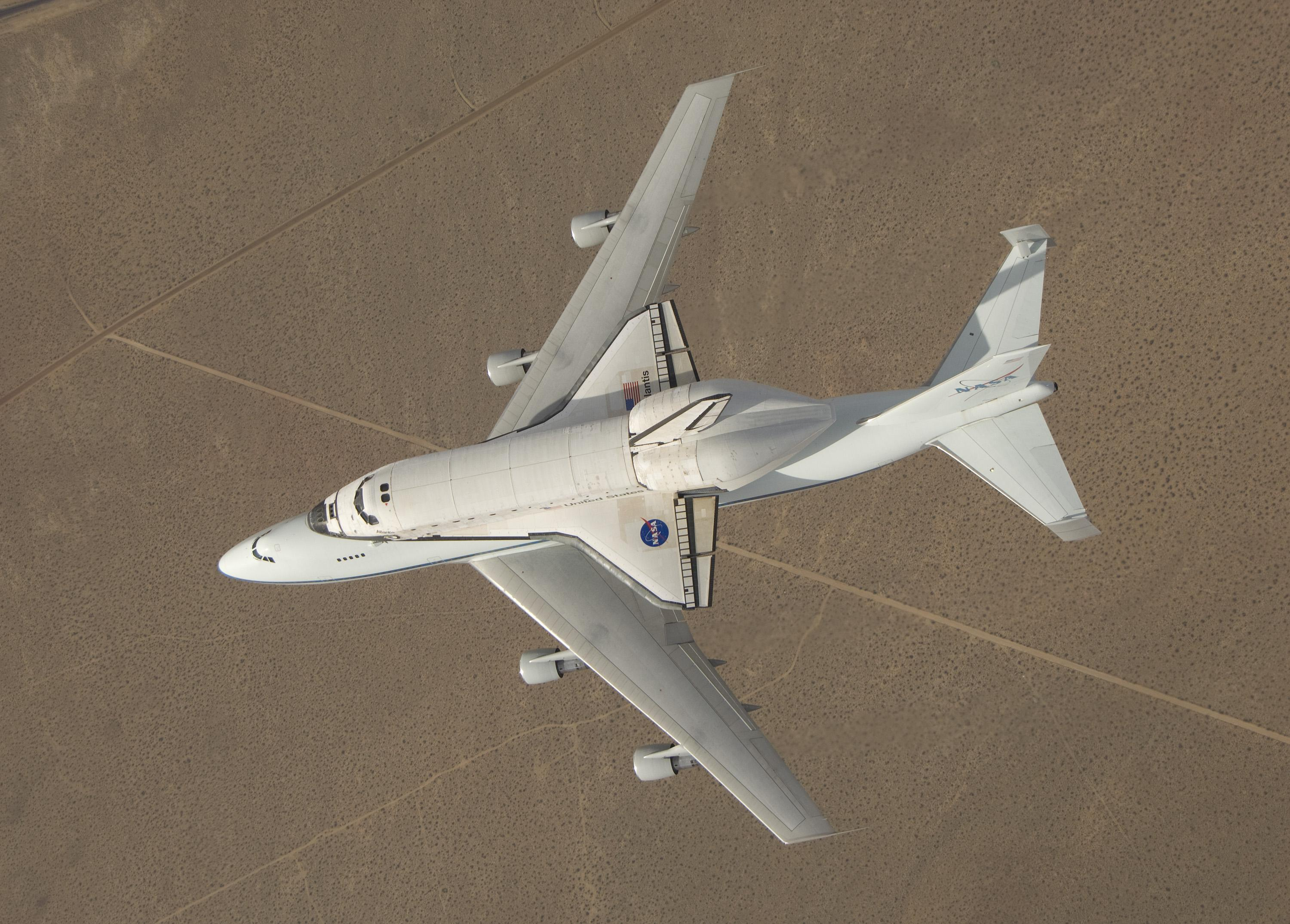 NASA Dryden photographer Jim Ross captured this overhead view of Space Shuttle Atlantis atop NASA's modified 747 carrier aircraft over California's high desert from an F/A-18 mission support aircraft after departing Edwards Air Force Base on a ferry flight back to the Kennedy Space Center in Florida.